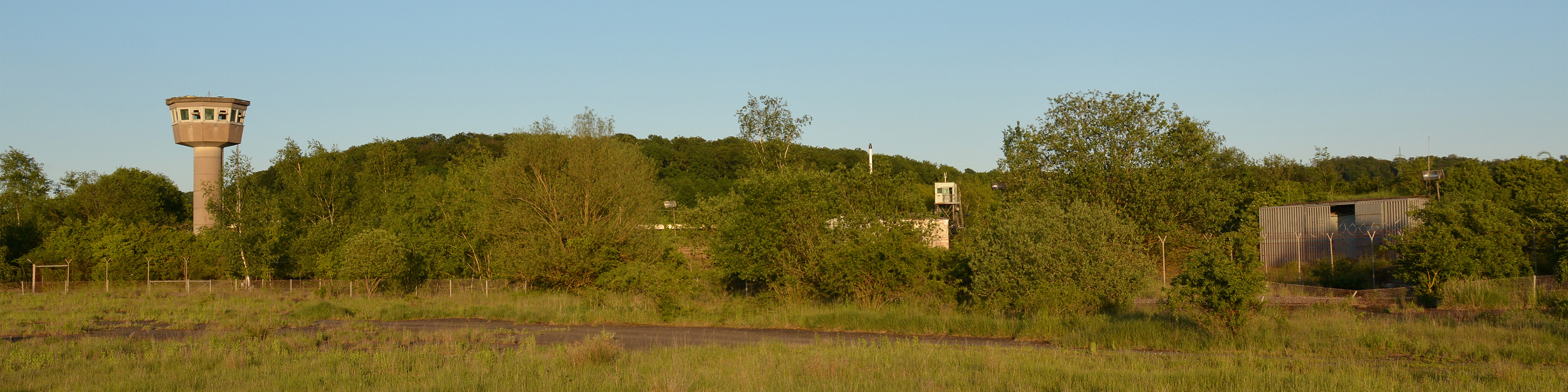 Special Ammunition Storage (SAS) Giessen, Hesse, Germany: Panoramic view from northwest, with concrete watchtower, steel watchtower and opened nuclear weapons bunker to the right